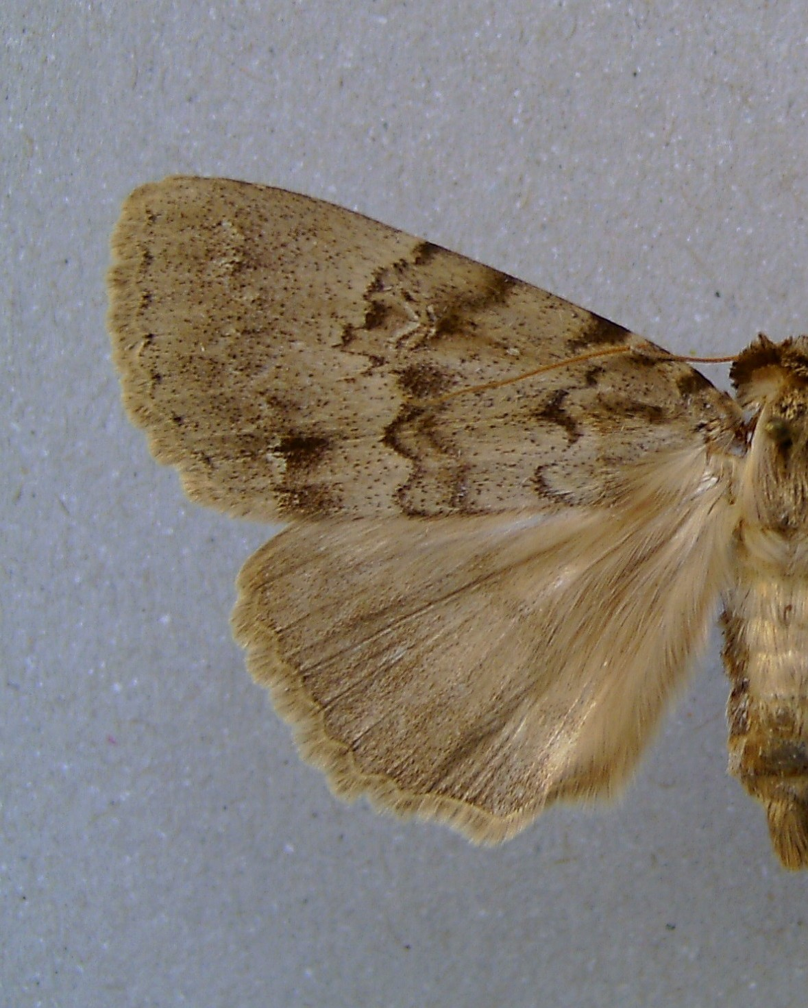 Apopestes spectrum, Trentino, Italy